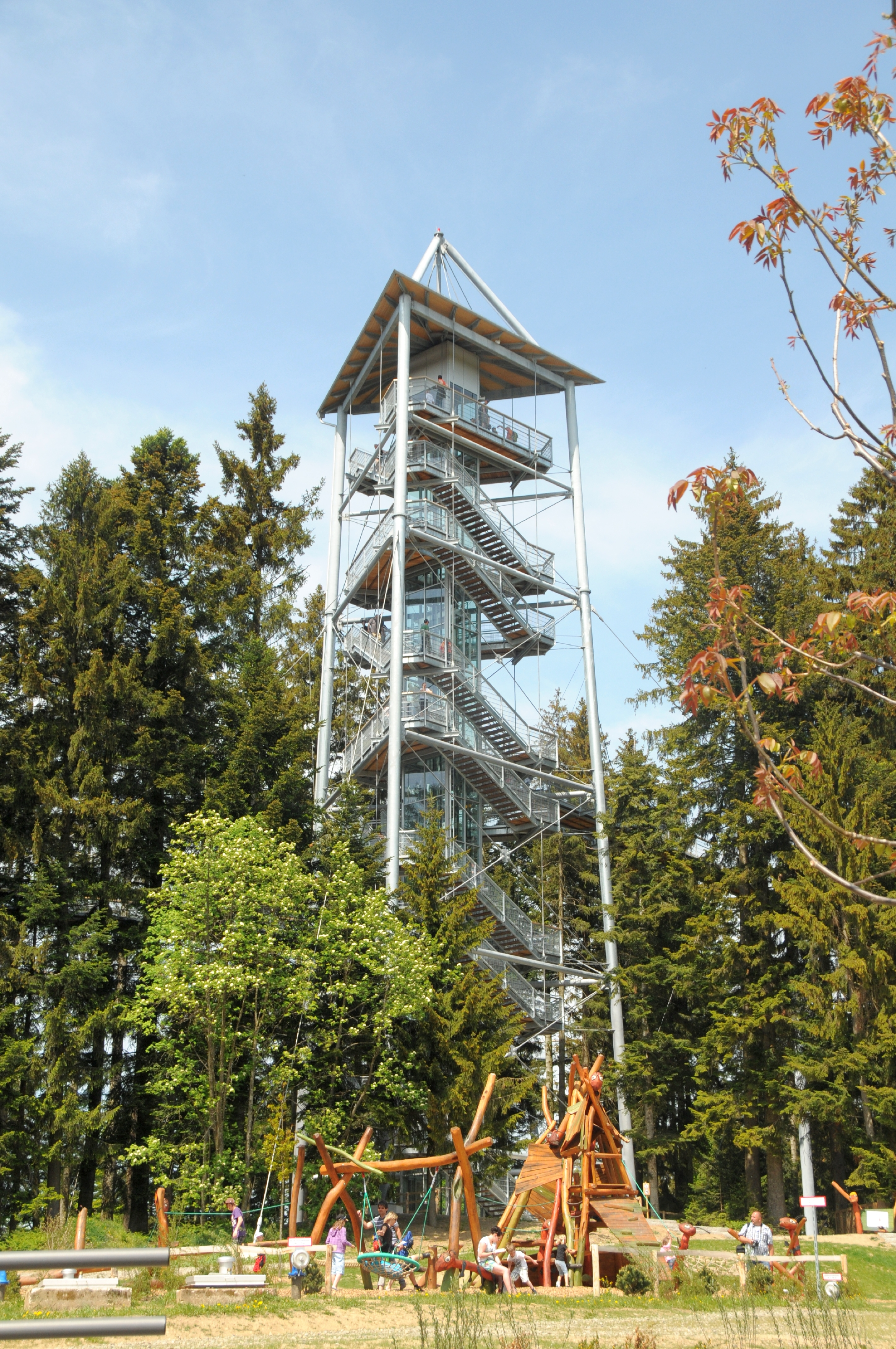 skywalk allgäu oservation tower